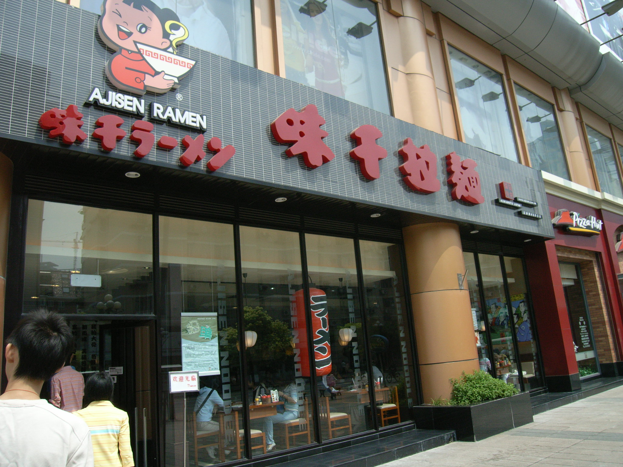 Ajisen Ramen on Hunan Road, Nanjing